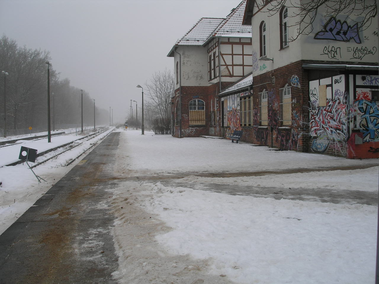 The train station of Beelitz (Stadt) in Brandenburg, Germany.